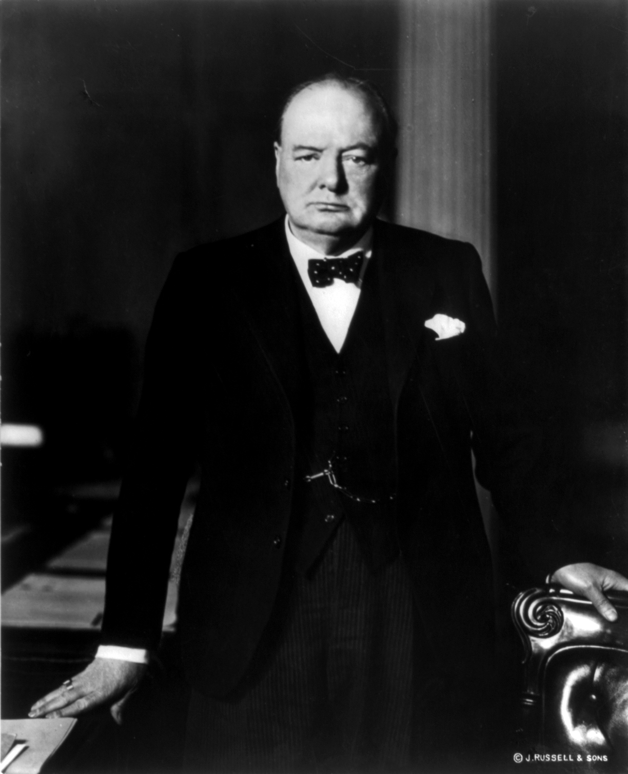 Sir Winston Churchill, Prime Minister of the United Kingdom